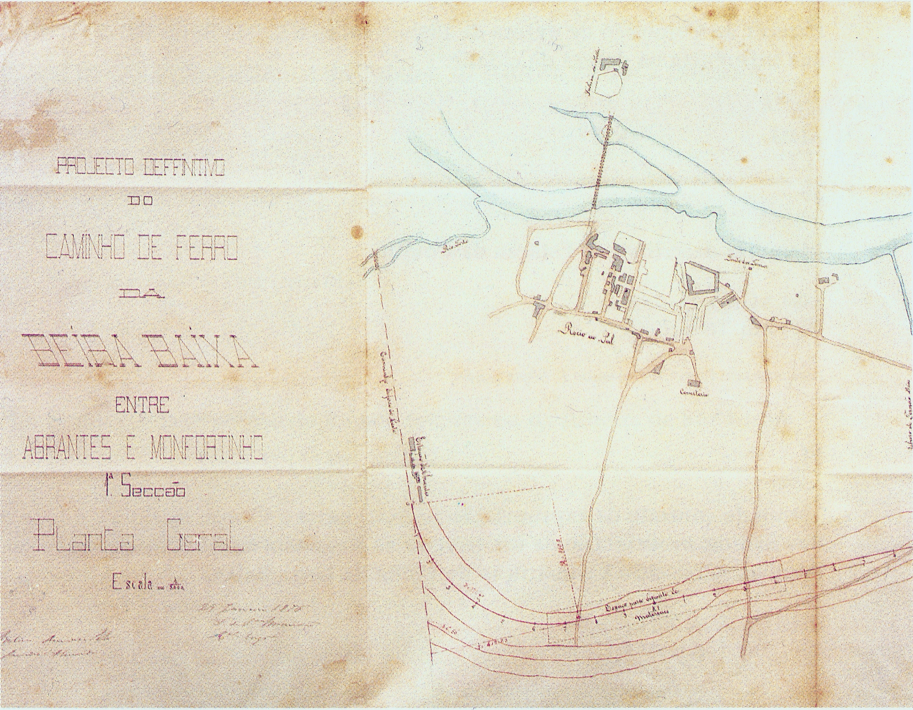 Plan with the first part of the Beira Baixa Railway, starting from the Abrantes Station, in the Leste Railway, in Portugal. When this project was made, in 29th January 1876, the line was supposed to end at the spanish border in Monfortinho. It was later changed to the Guarda Station, in the Beira Alta Railway.